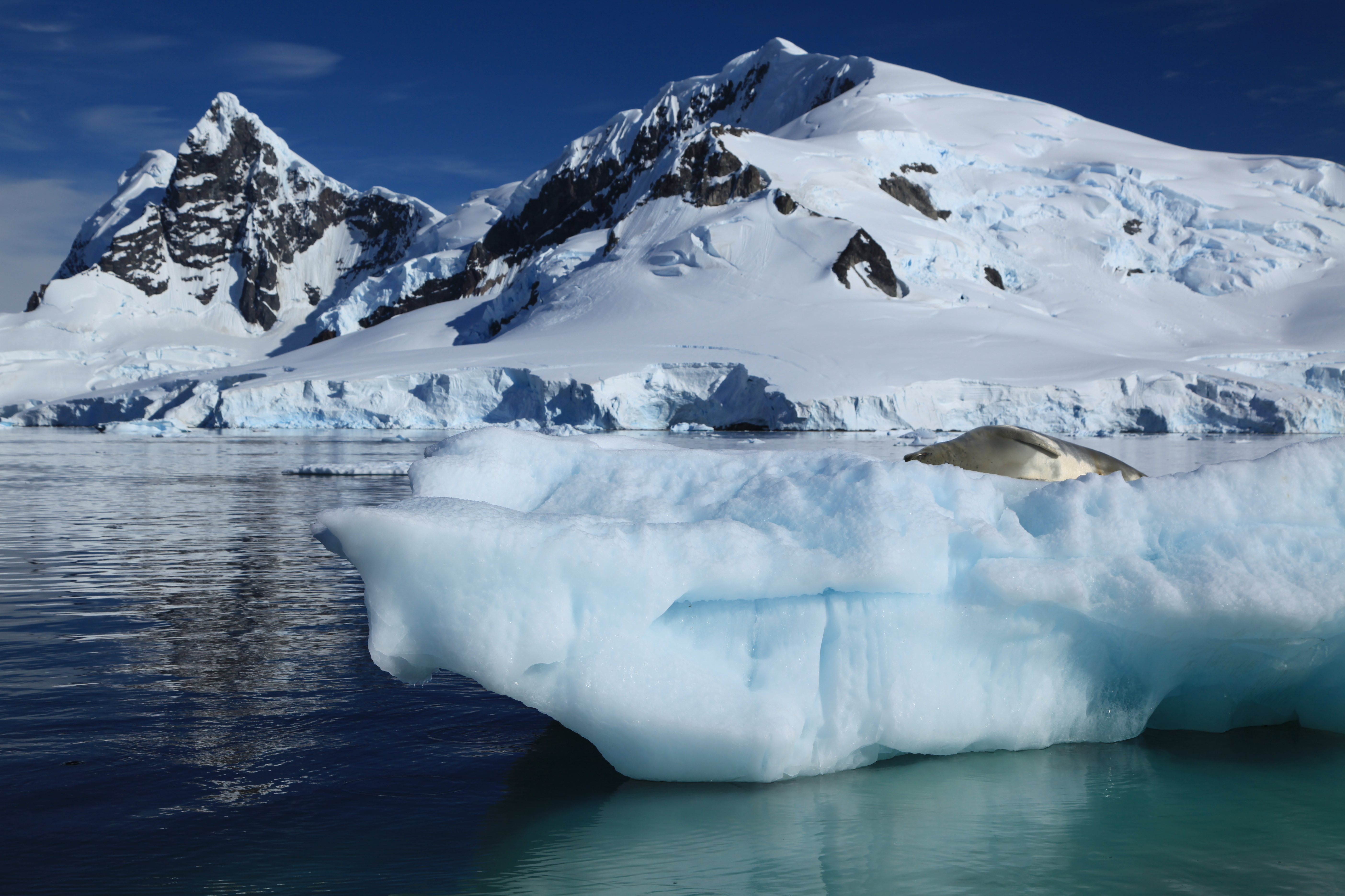 Iceberg with Crabeater Seal in Paradise Harbour, Antarctica